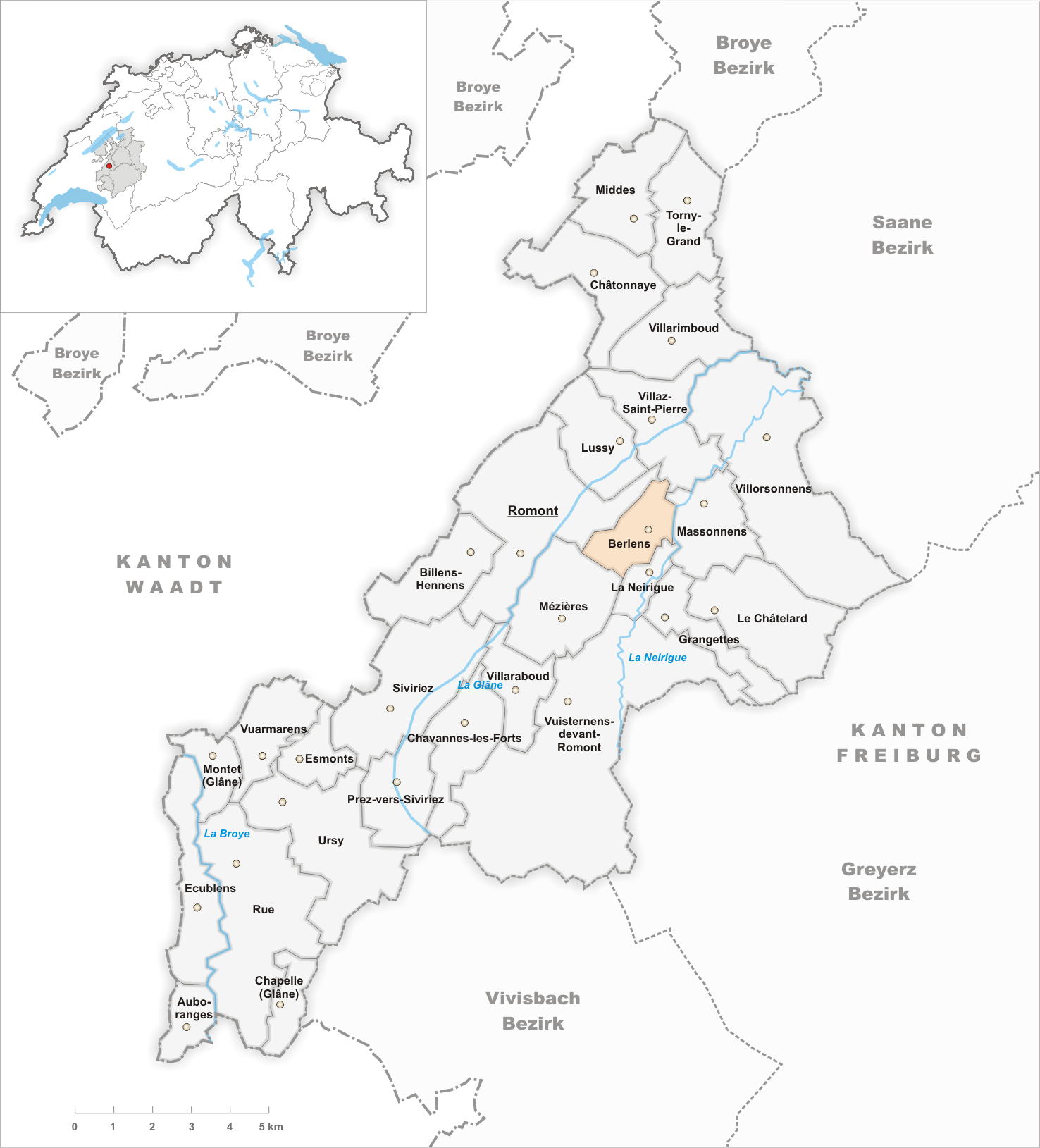 Municipality Berlens Artist: Tschubby